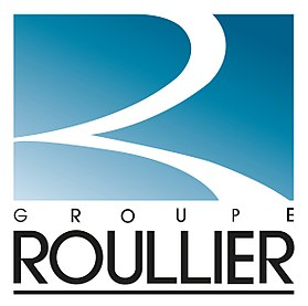 Logo Groupe Roullier